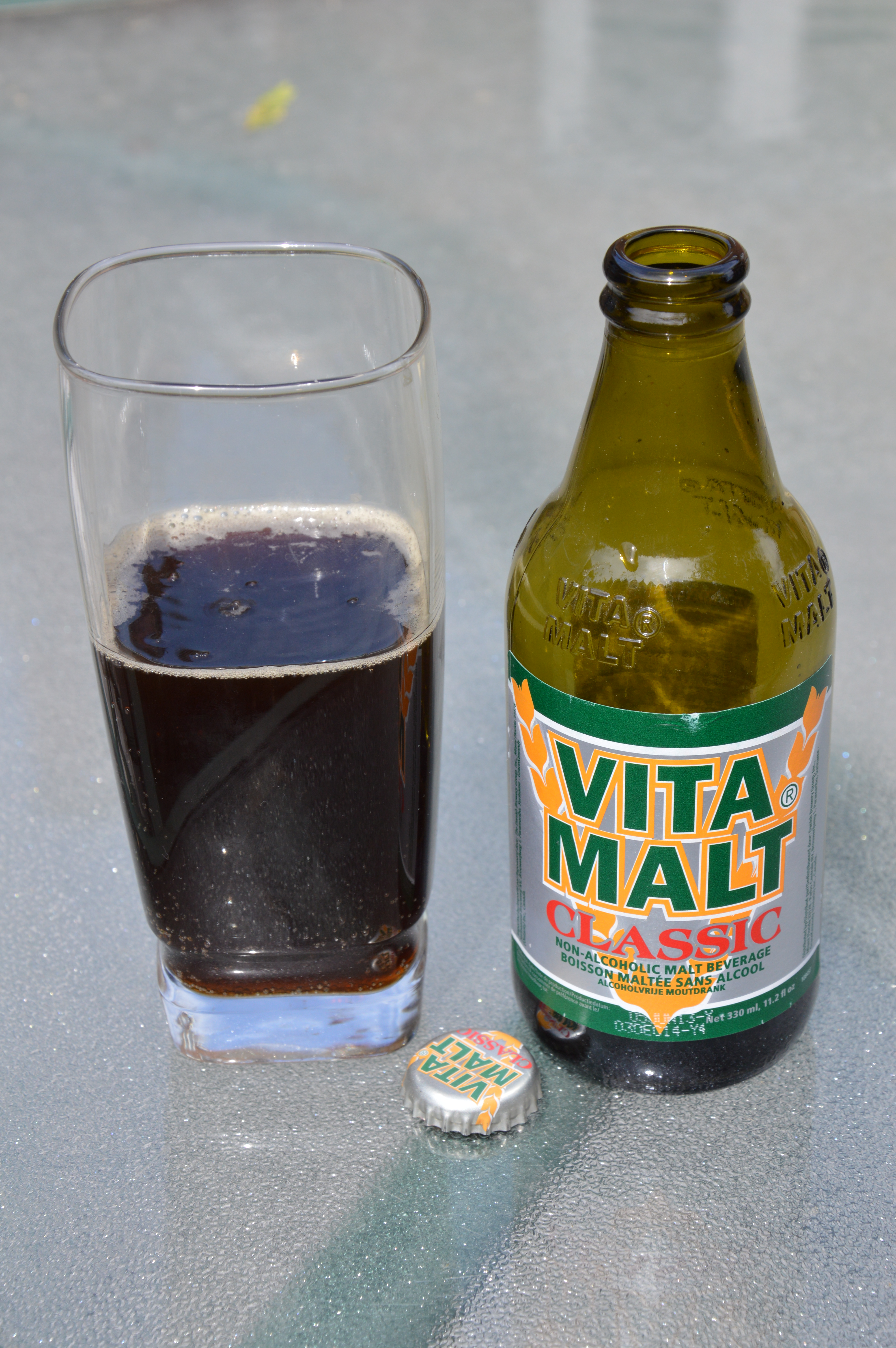 A glass and a bottle of Vitamalt. I consider the design on the bottle to be ineligible for copyright on the basis of Commons:Licensing#Simple_design